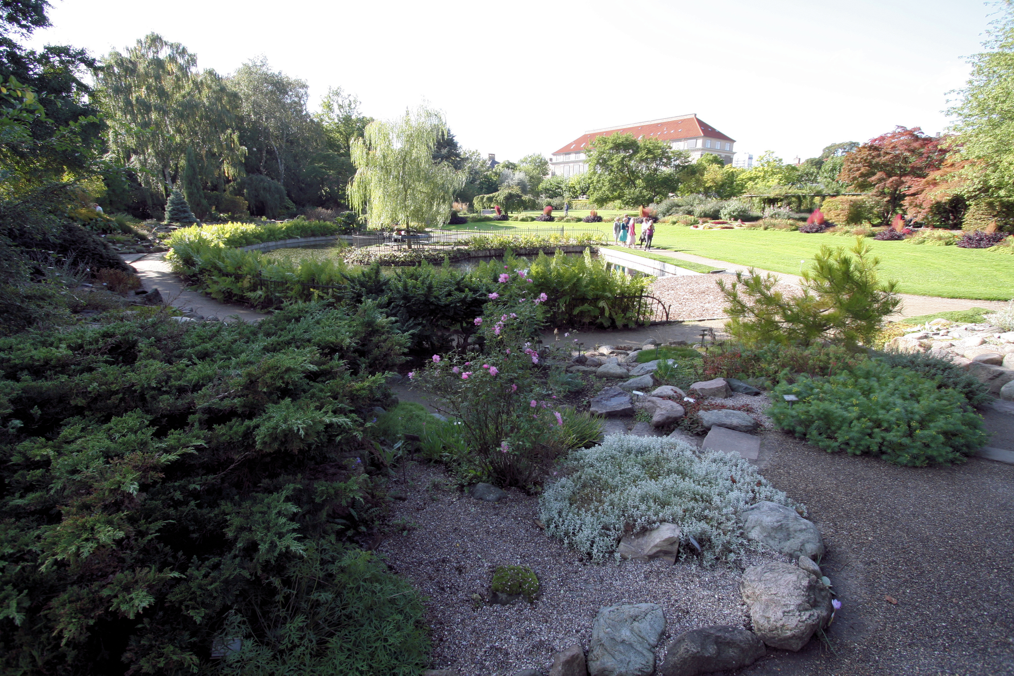 KVL - The Royal Veterinary and Agricultural University of Denmark. KVL's Garden, Copenhagen